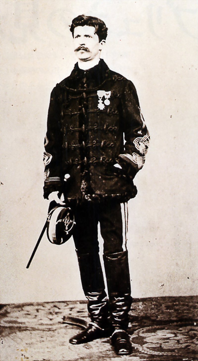 Jules Brunet (1838-1911), french military advisor to Japan